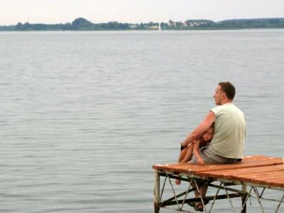 Fatherly love